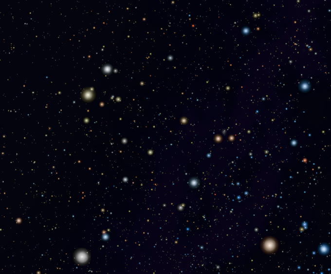 Image of Gemini